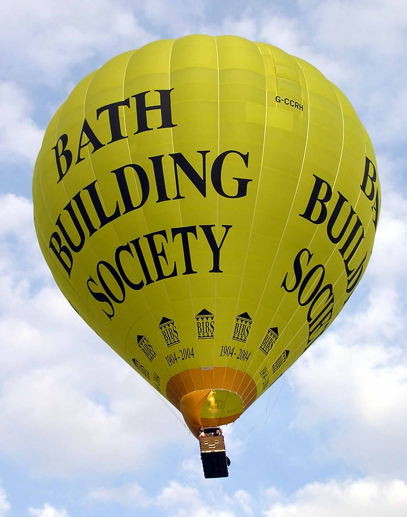 A hot air balloon takes off from Royal Victoria Park, Bath, England. Photographed by Adrian Pingstone on 21st September 2004 and placed in the public domain.